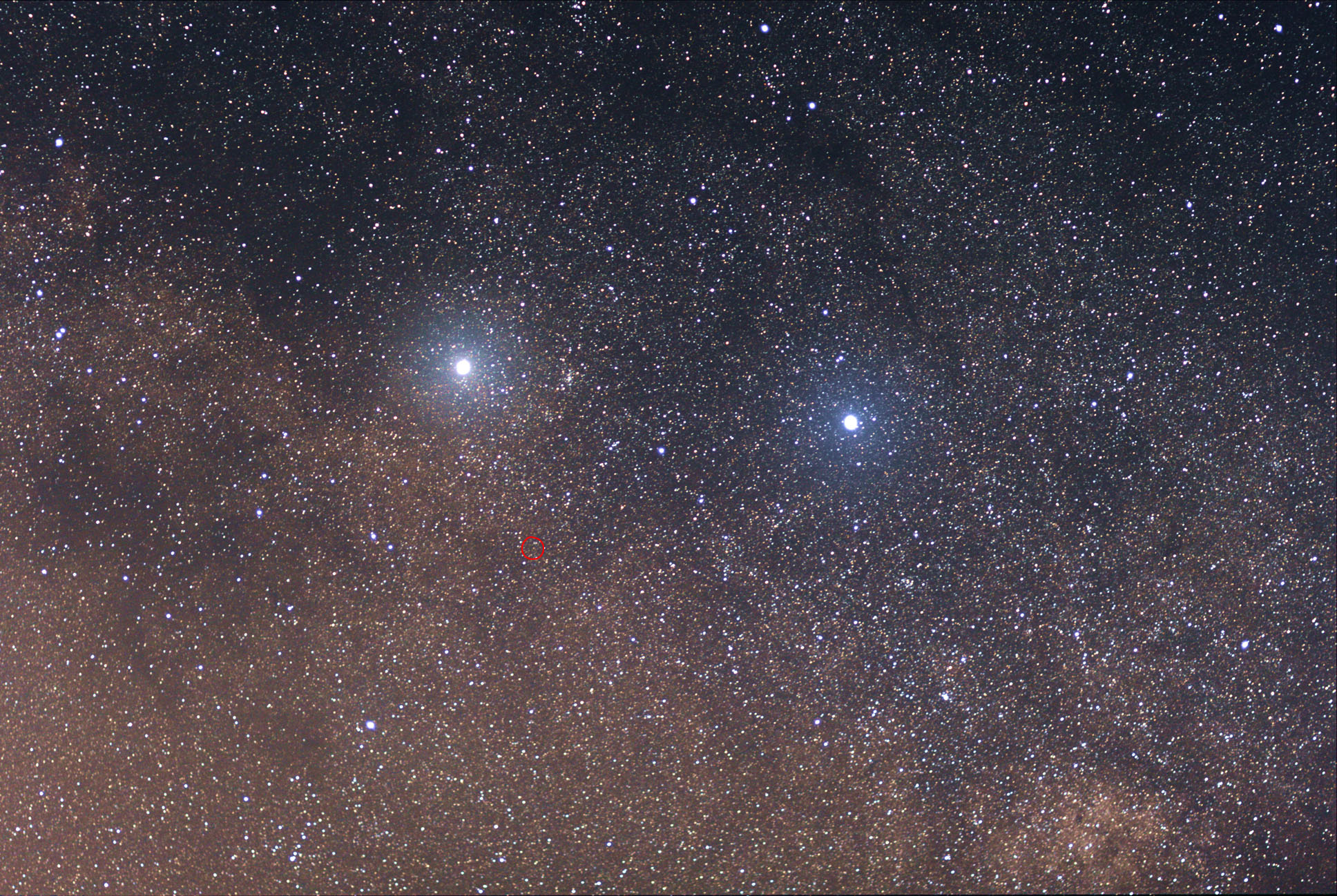 The two bright stars are (left) Alpha Centauri and (right) Beta Centauri, both binaries. The faint red star in the center of the red circle, at right angles to both and south-east of Alpha is Proxima Centauri, intensely red, smaller in size, weaker in brightness and a distant third element in a triple star system with the main close pair forming Alpha Centauri. Taken with Canon 85mm f/1.8 lens with 11 frames stacked, each frame exposed 30 seconds.